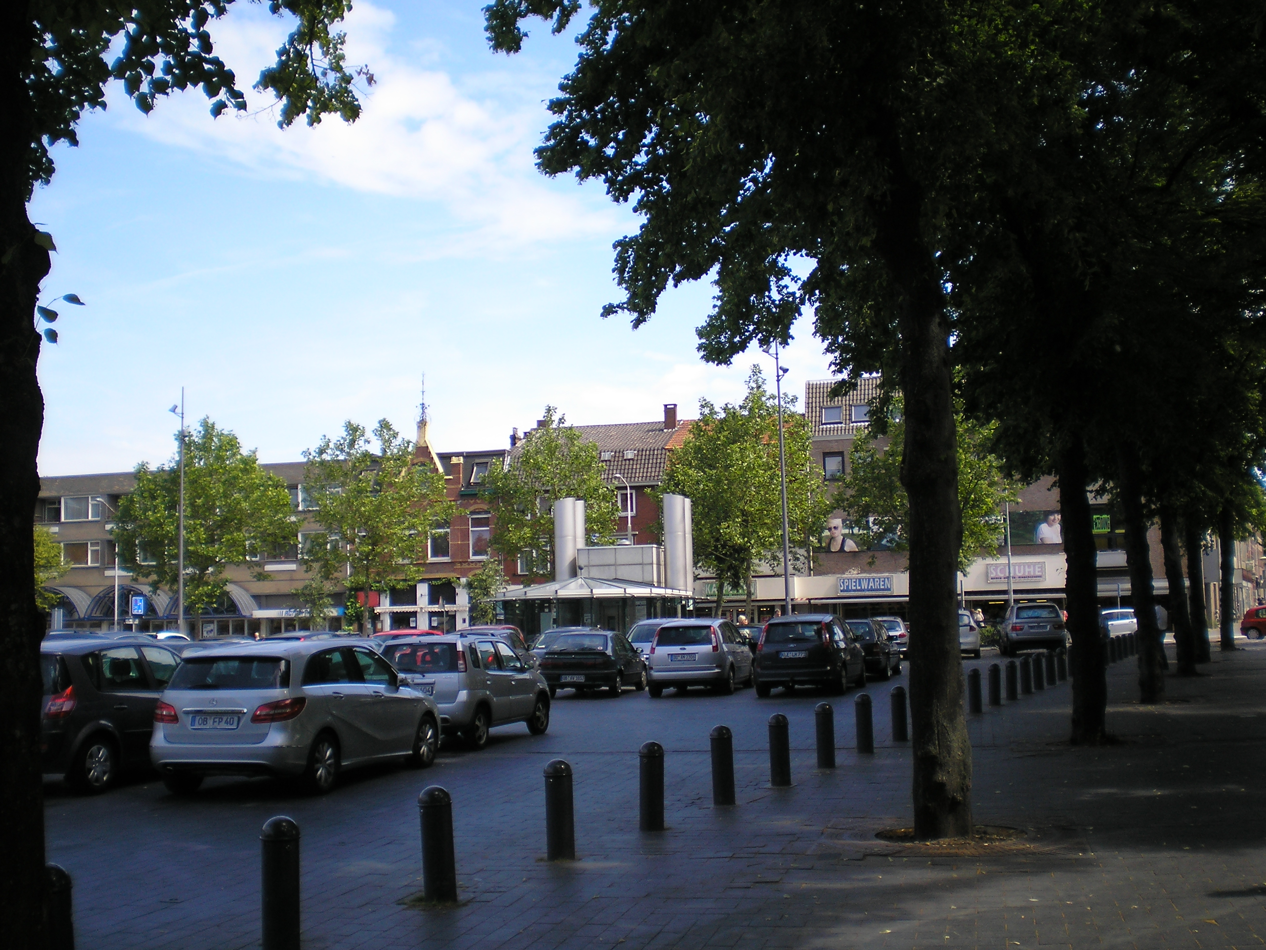 Monsignor Nolensplein in Venlo in Nederland